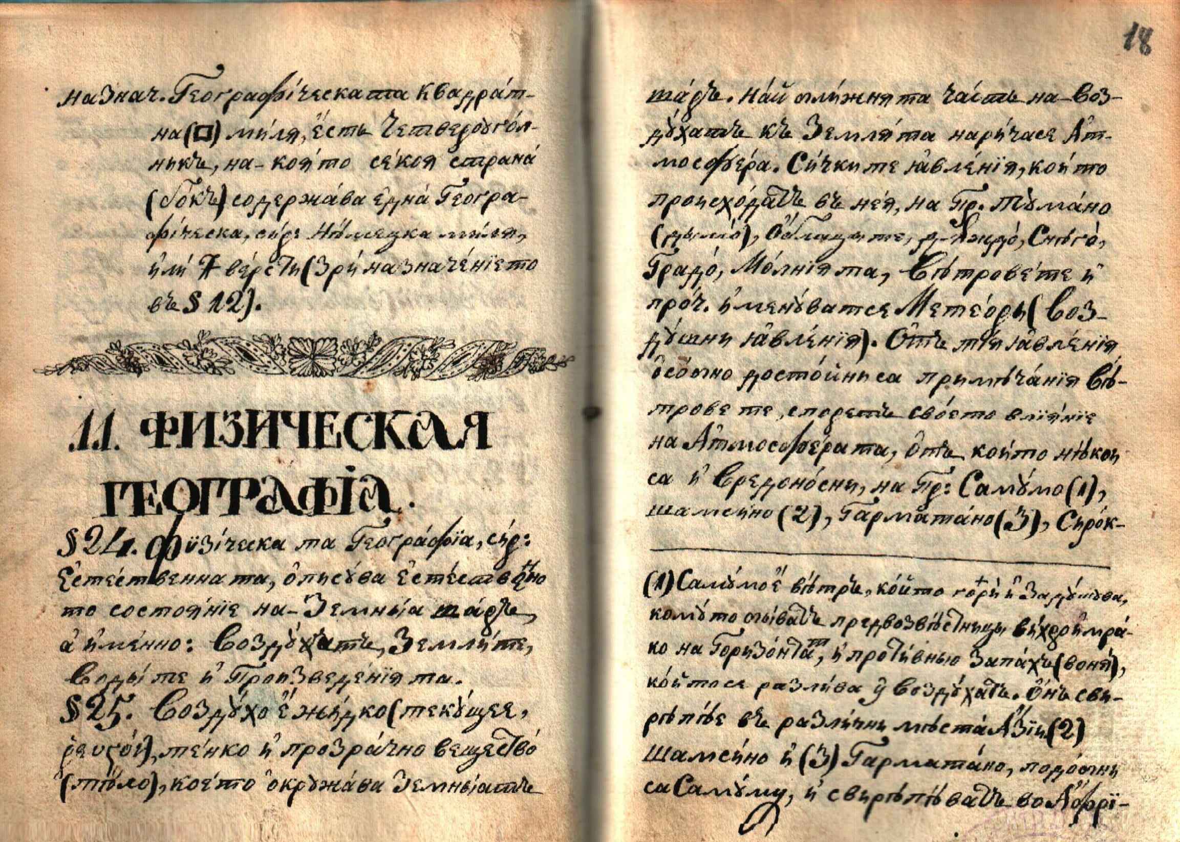 Geography, Zaharii Krusha